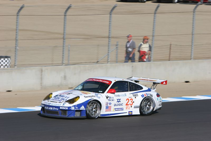 Marcel Tiemann driving Alex Job Racing's Porsche 911 GT3-RSR